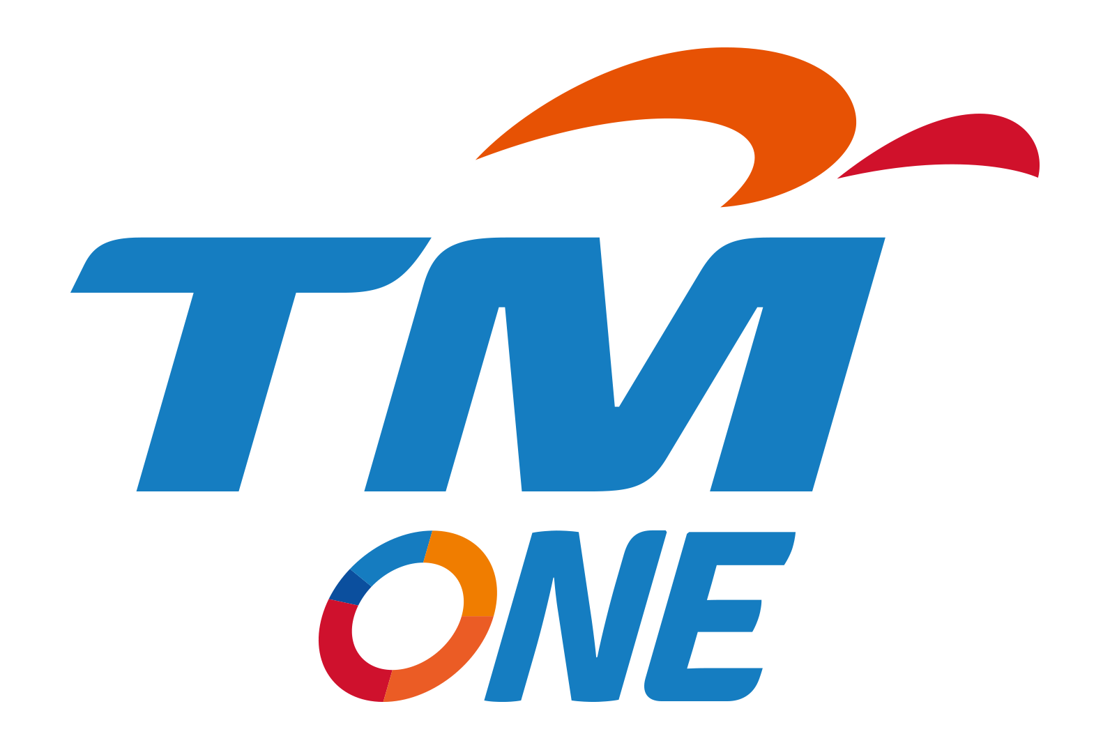 logo TM ONE